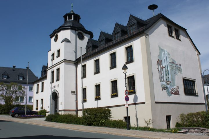 Town hall in Bad Steben